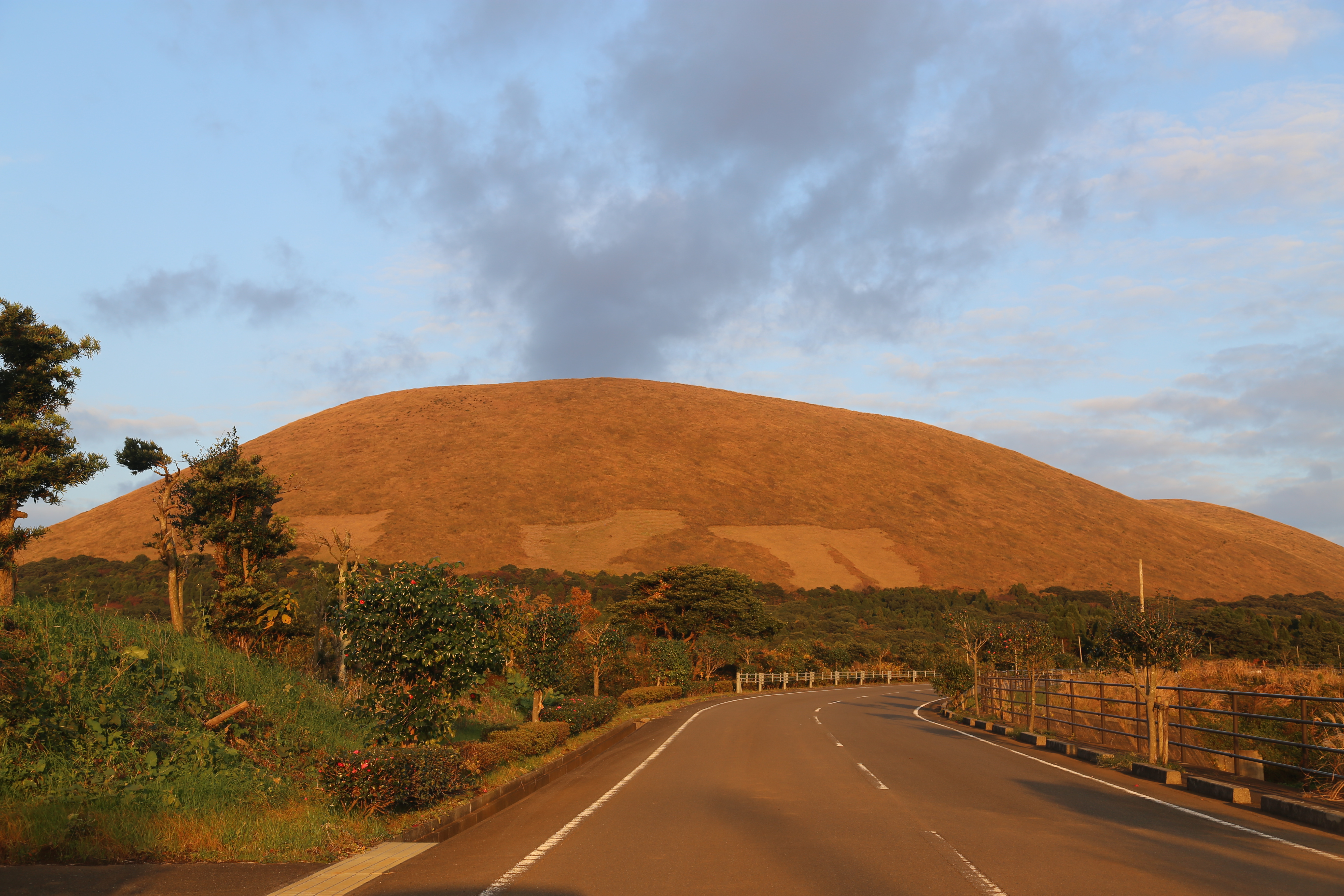 Mount Ondake as seen from the southeast.